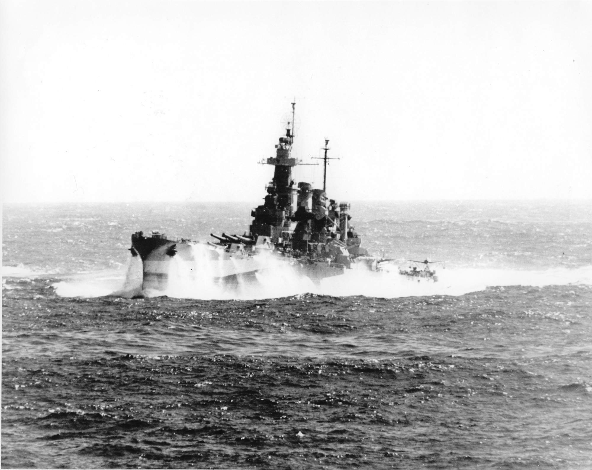 USS North Carolina (BB-55) pitching in heavy seas while screening Task Force 38.3 off the Philippines, December 1944.